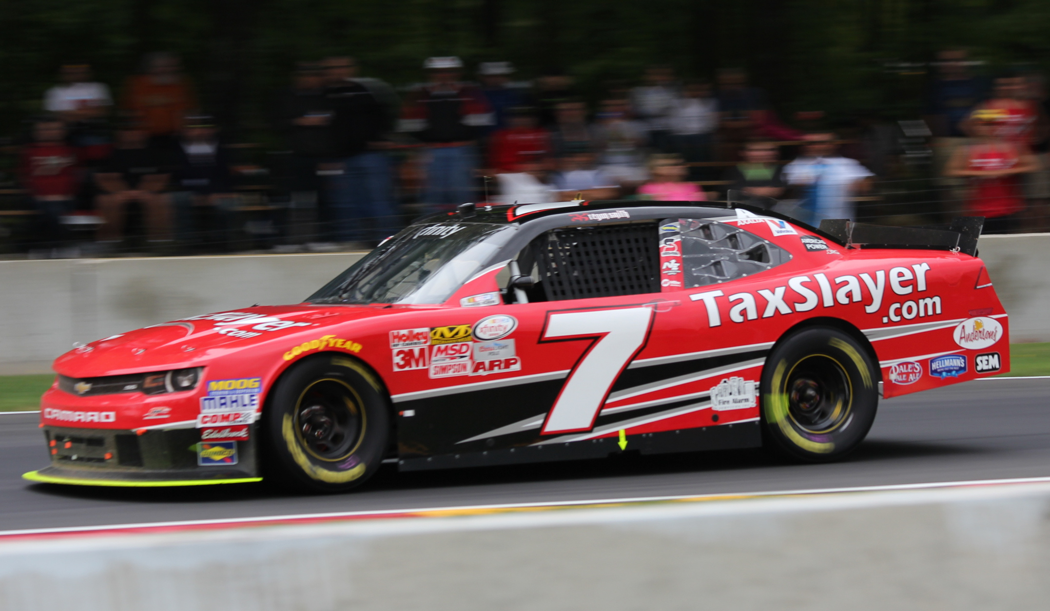 The NASCAR Xfinity Series car of Regan Smith turning left in Turn 6 at Road America.